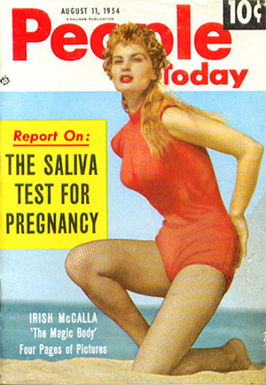 Cover, People Today magazine (defunct) Aug. 11, 1954; Hillman Periodicals; covergirl Irish McCalla. A search using the title "People Today" was done at for possible renewals of any copyright. The three listings with the same or similar titles that were located are not connected with this magazine or its publisher. There is no evidence of copyright renewal for the title.